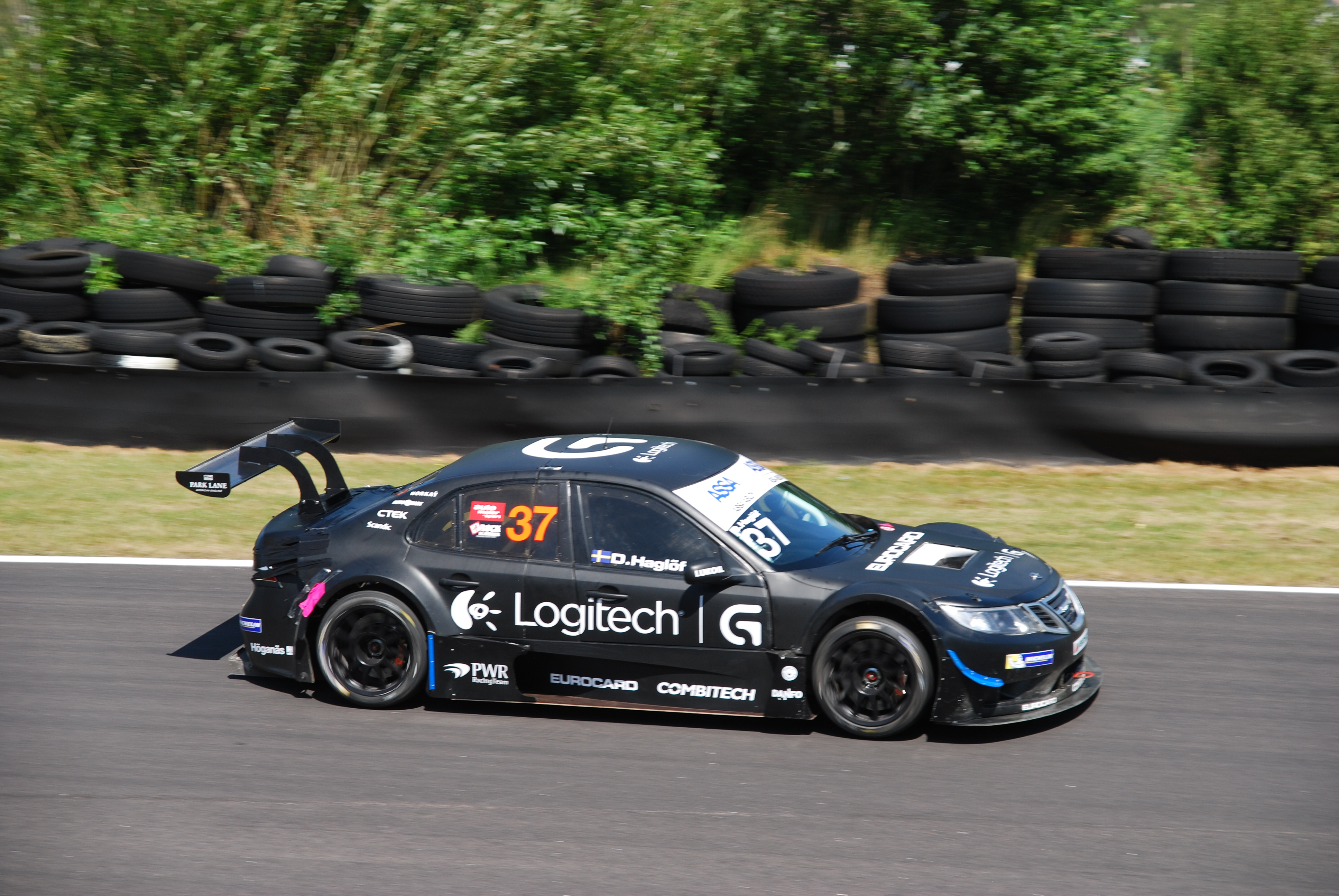 Daniel Haglöf driving for PWR Racing Team at Falkenbergs Motorbana, during the fifth round of the 2015 Scandinavian Touring Car Championship (STCC) season.